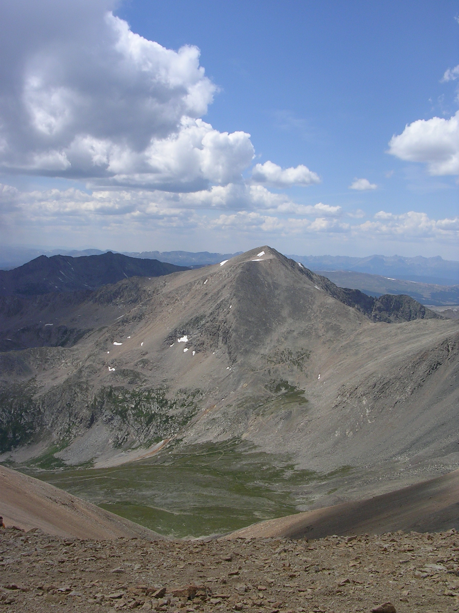 Mt. Democrat from the summit of Mt. Bross, Colorado, USA.